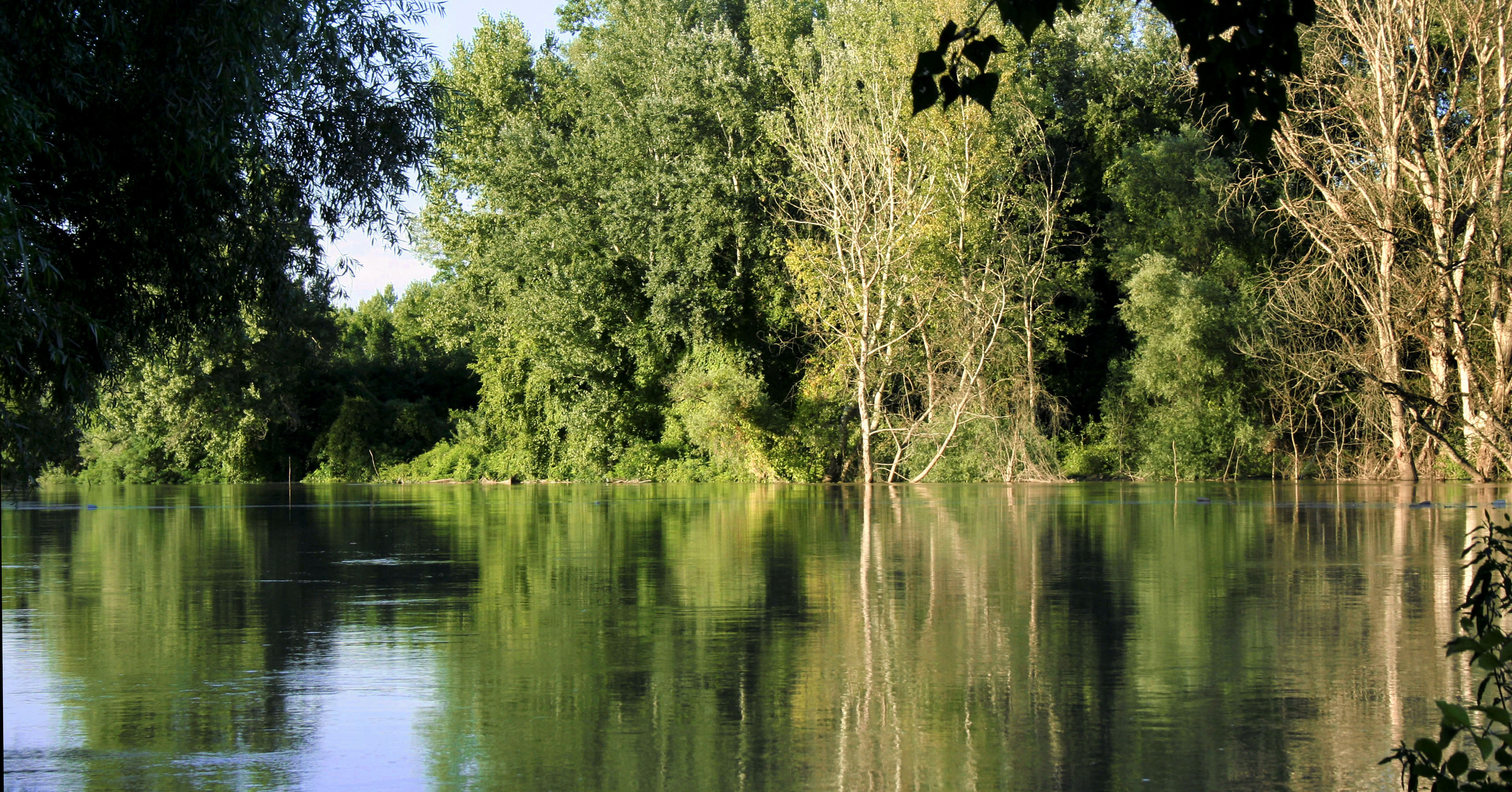 Tisza River floods, in July, near to Szeged - Green flooding in July. (Hungary)